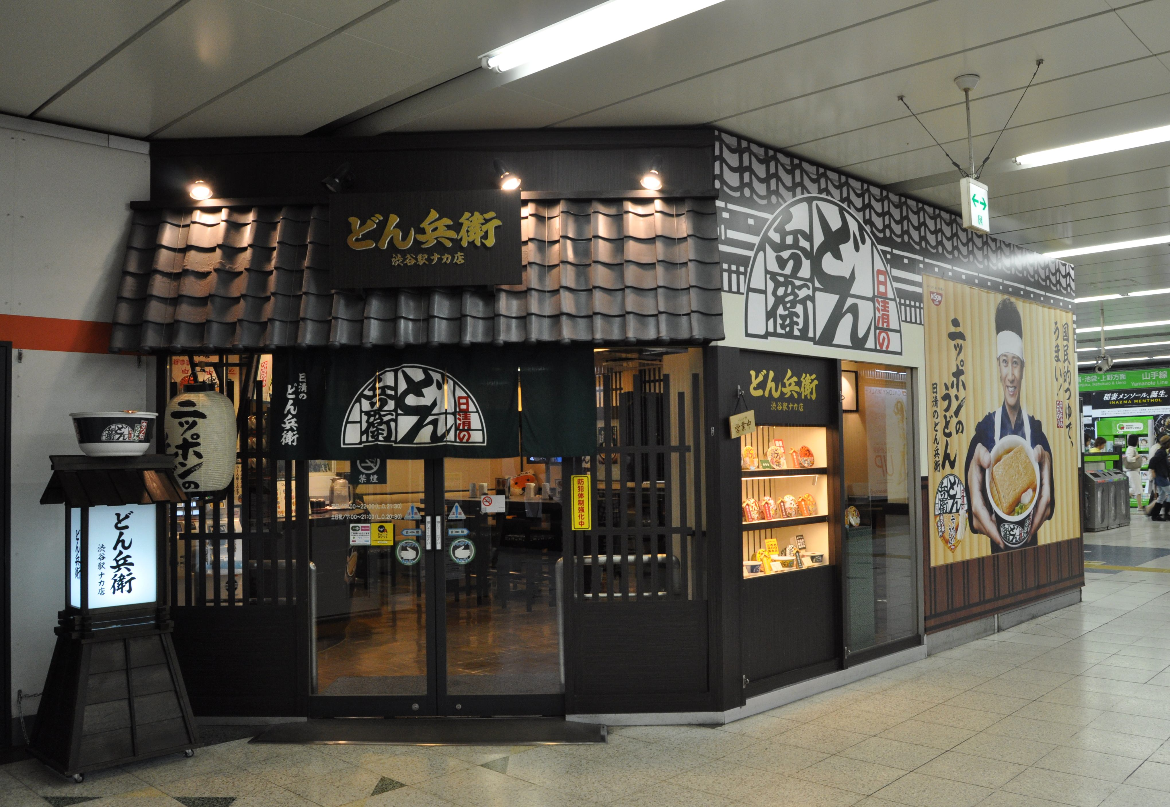 Nissin Donbei noodle stand in the Shibuya Station, Tokyo, Japan.